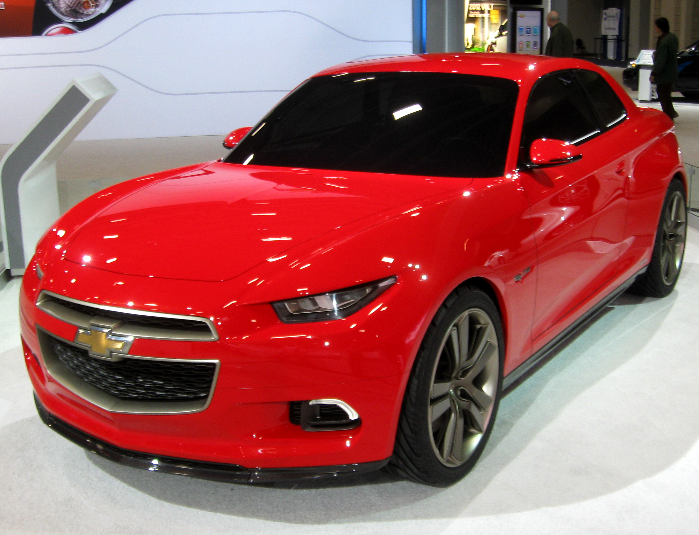 Chevrolet Code 130R concept photographed in Washington, D.C., USA.